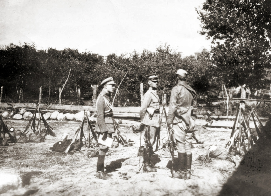 Gen. Władysław Sikorski with soldiers of the Polish 5th Army during battle of Warsaw